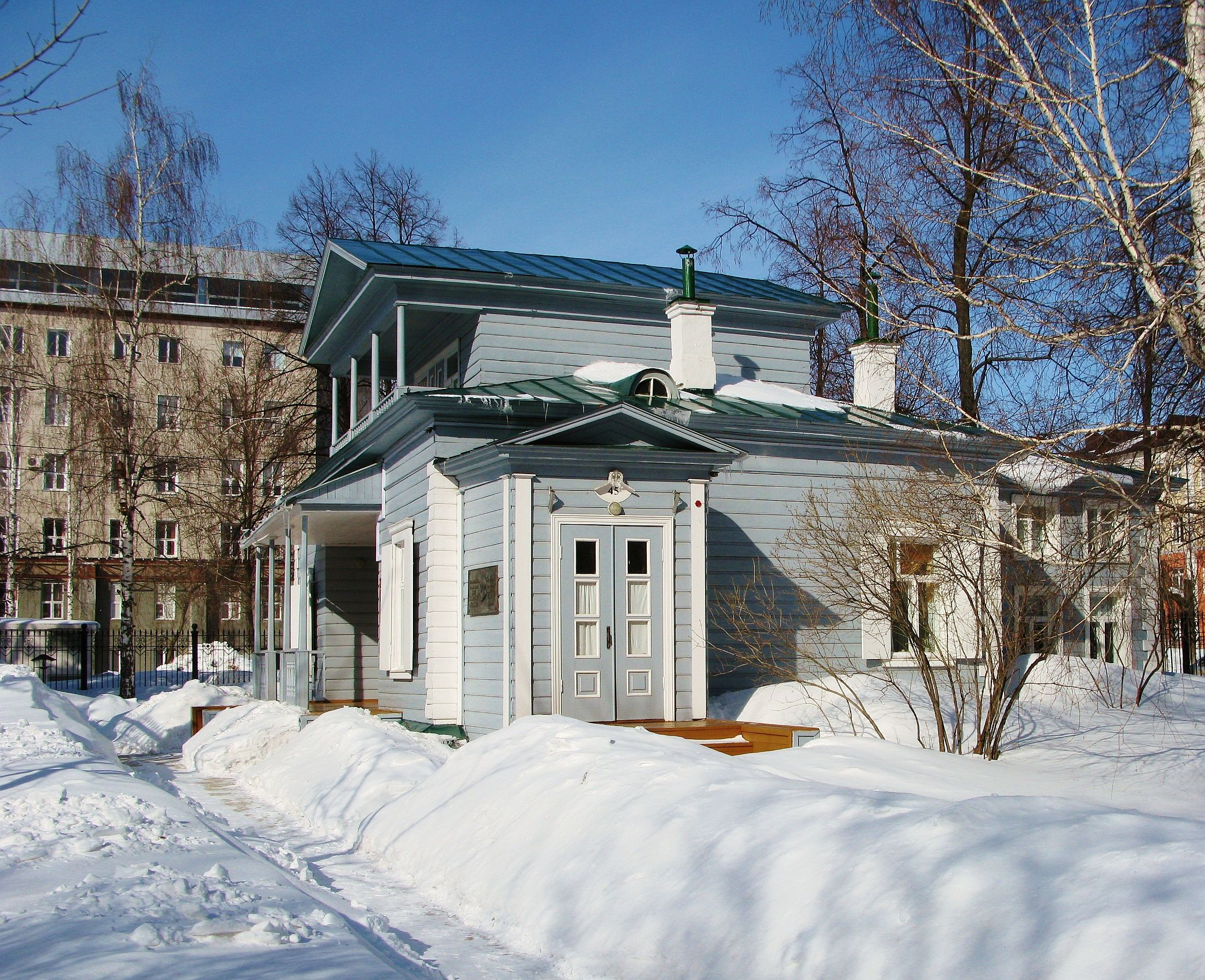 town Ufa